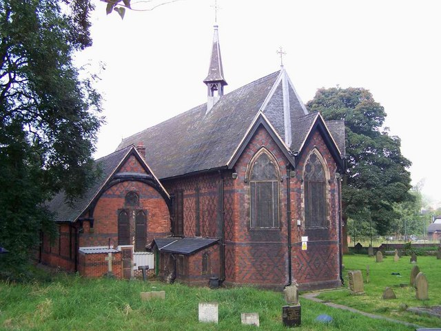 Parish church of the Resurrection, Dresden, Staffordshire, seen from the southeast